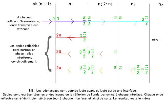 bragg mirror